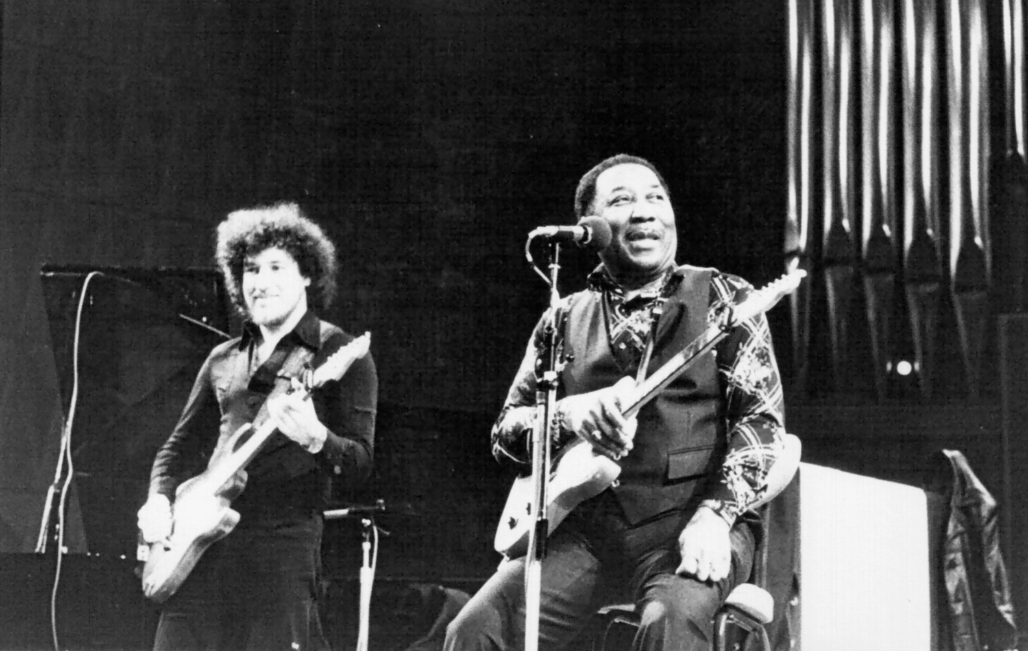 Muddy Waters and Bob Margolin in Paris, France